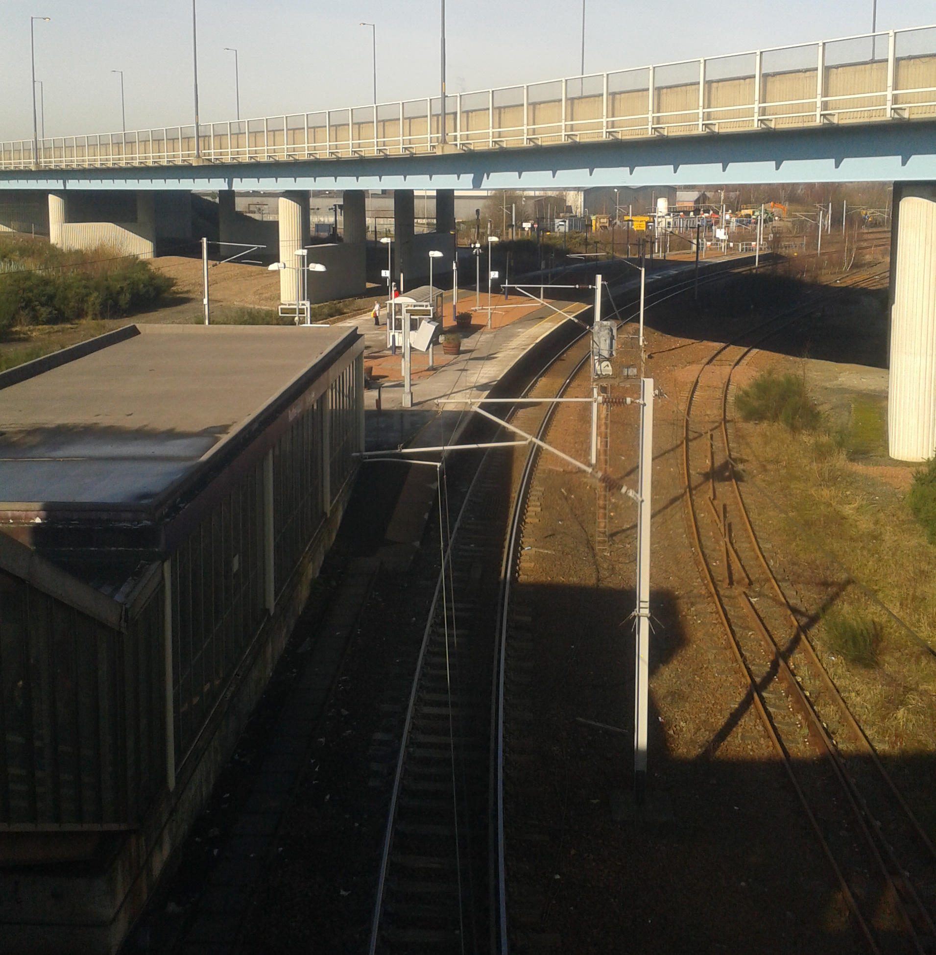 Rutherglen railway station, viewed from walkway toward platform 2.